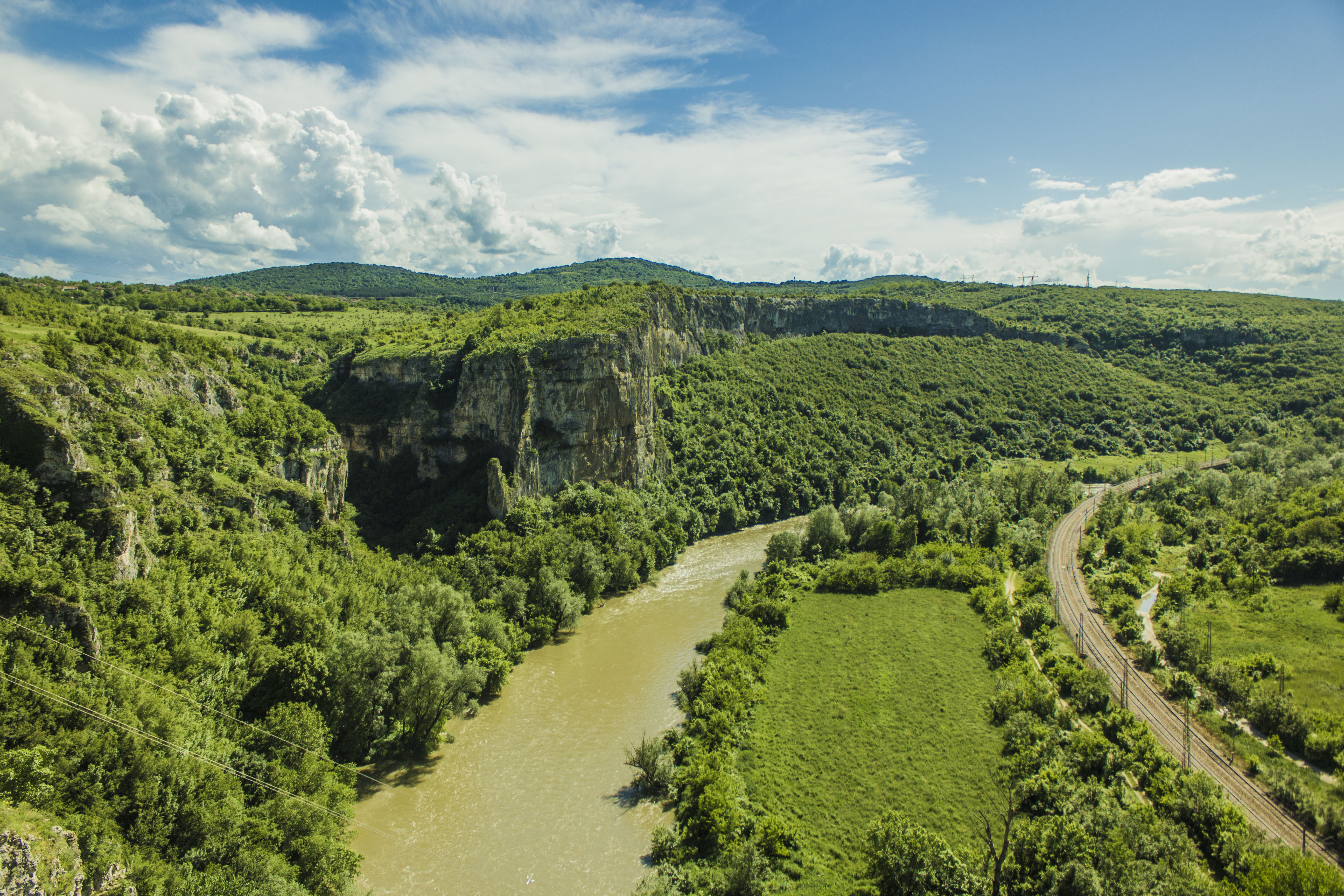 The Iskar river is, with a length of 368 km, the longest river that runs solely in Bulgaria, and a tributary of the Danube.In terms of geology, the Iskar is the oldest river in the Balkans and also the only one to have preserved its original direction despite the significant geological changes in later stages. Iskar passes near the cave called Eyes of God, in Lukovit Bulgaria